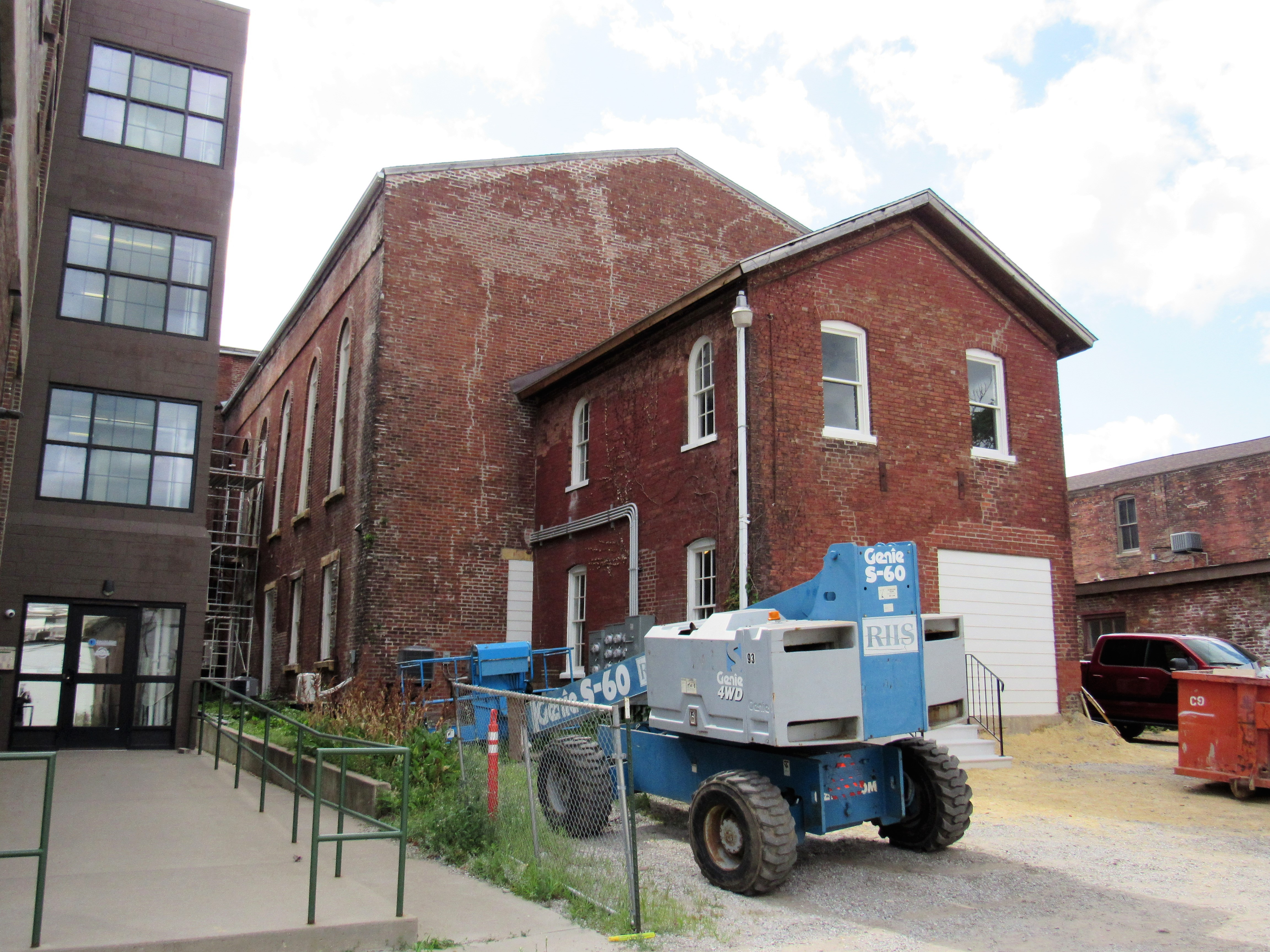 The rear elevation of the Hibernia Hall in Davenport, Iowa.